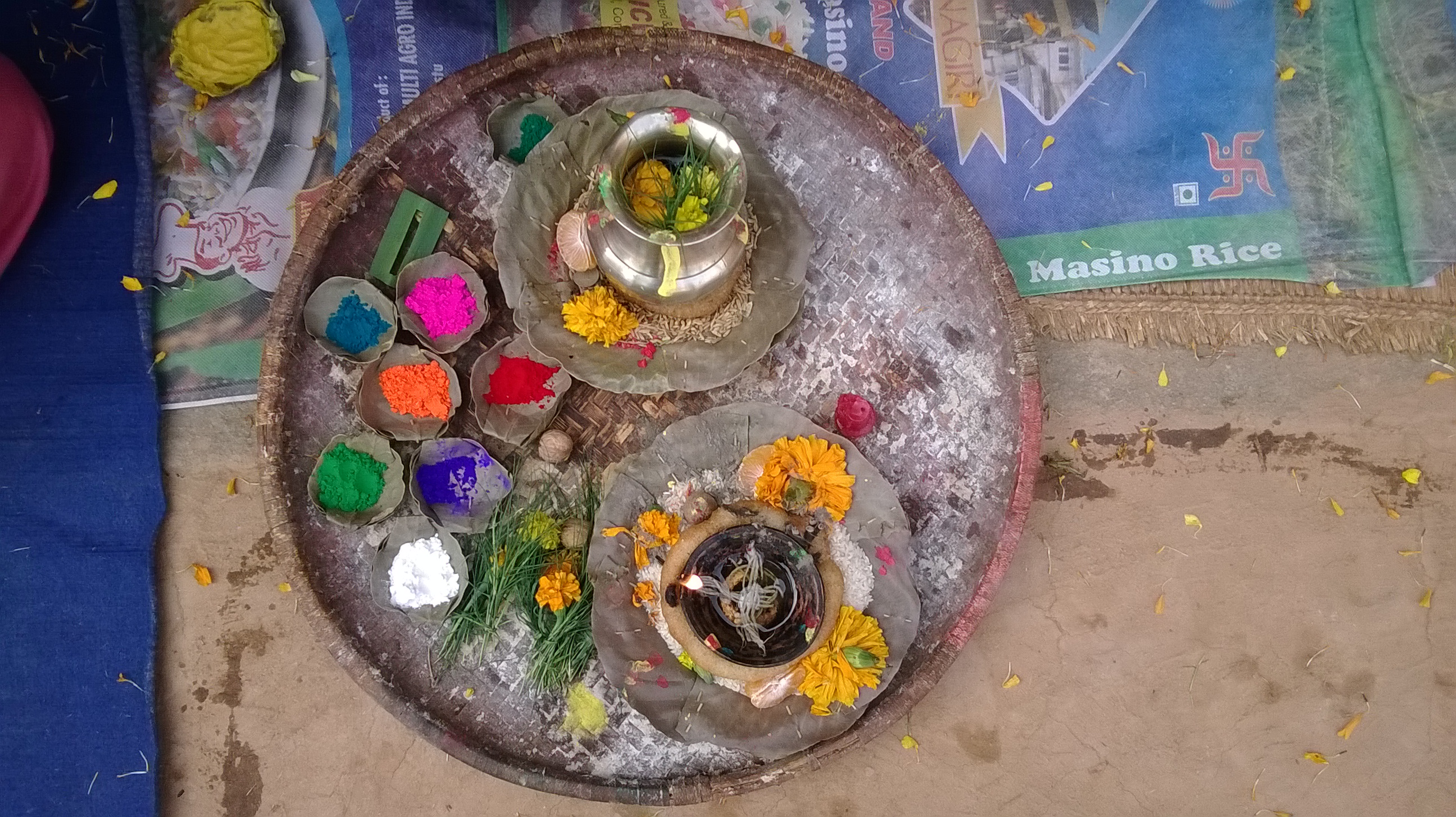 Celebration of bhaitika in Panchkhal Valley.